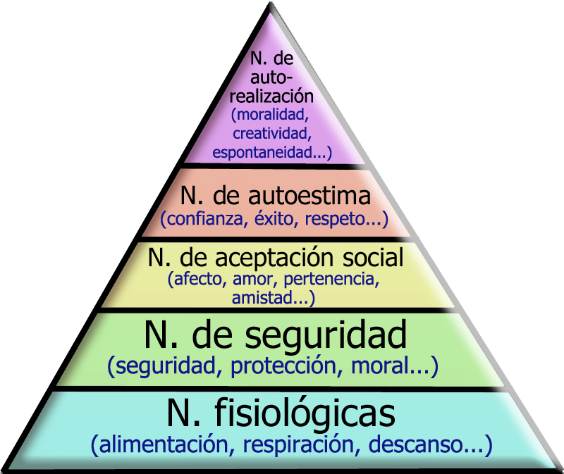 Piramid of Maslow, showing the hierarchy of human needs.